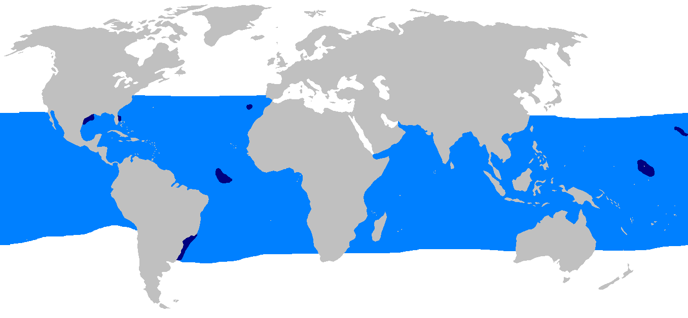 Distribution map for Odontaspis noronhai, based on Compagno, L.J.V. (2002). Sharks of the World: An Annotated and Illustrated Catalogue of Shark Species Known to Date (Volume 2). Food and Agriculture Organization of the United Nations. pp. 66–67.